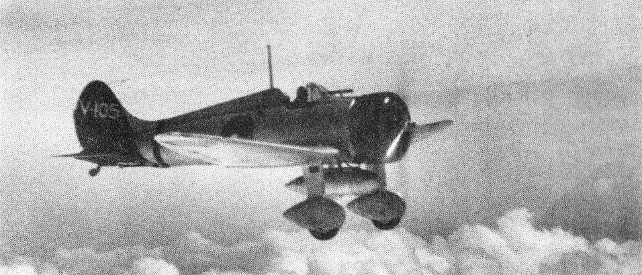 An Imperial Japanese Navy Air Service Mitsubishi A5M, from the aircraft carrier Akagi, (aka Mitsubishi Navy Type 96 Carrier-based Fighter, Mitsubishi Navy Experimental 9-Shi Carrier Fighter and company designation Mitsubishi Ka-14.)